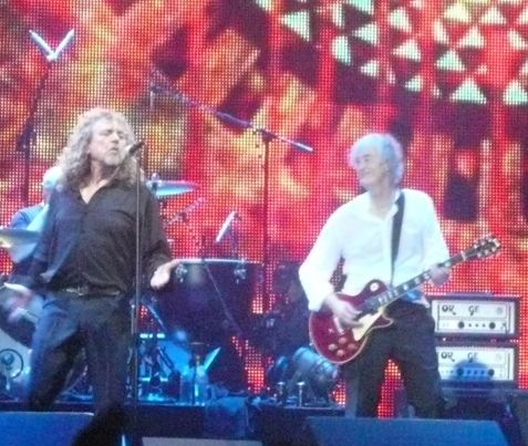 Led Zeppelin